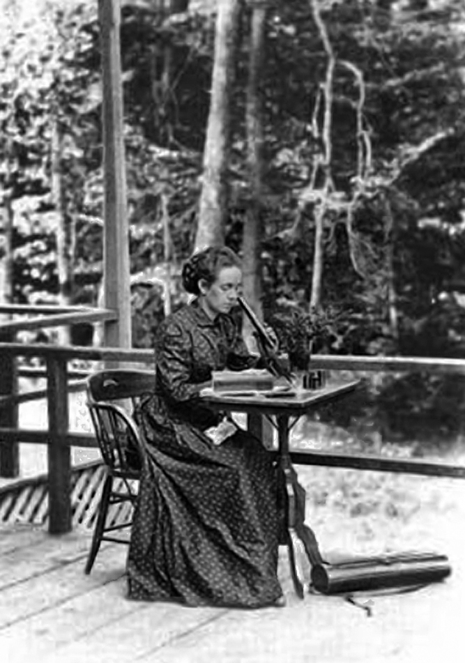 Elizabeth Gertrude Knight (Later Britton) (1858-1934)